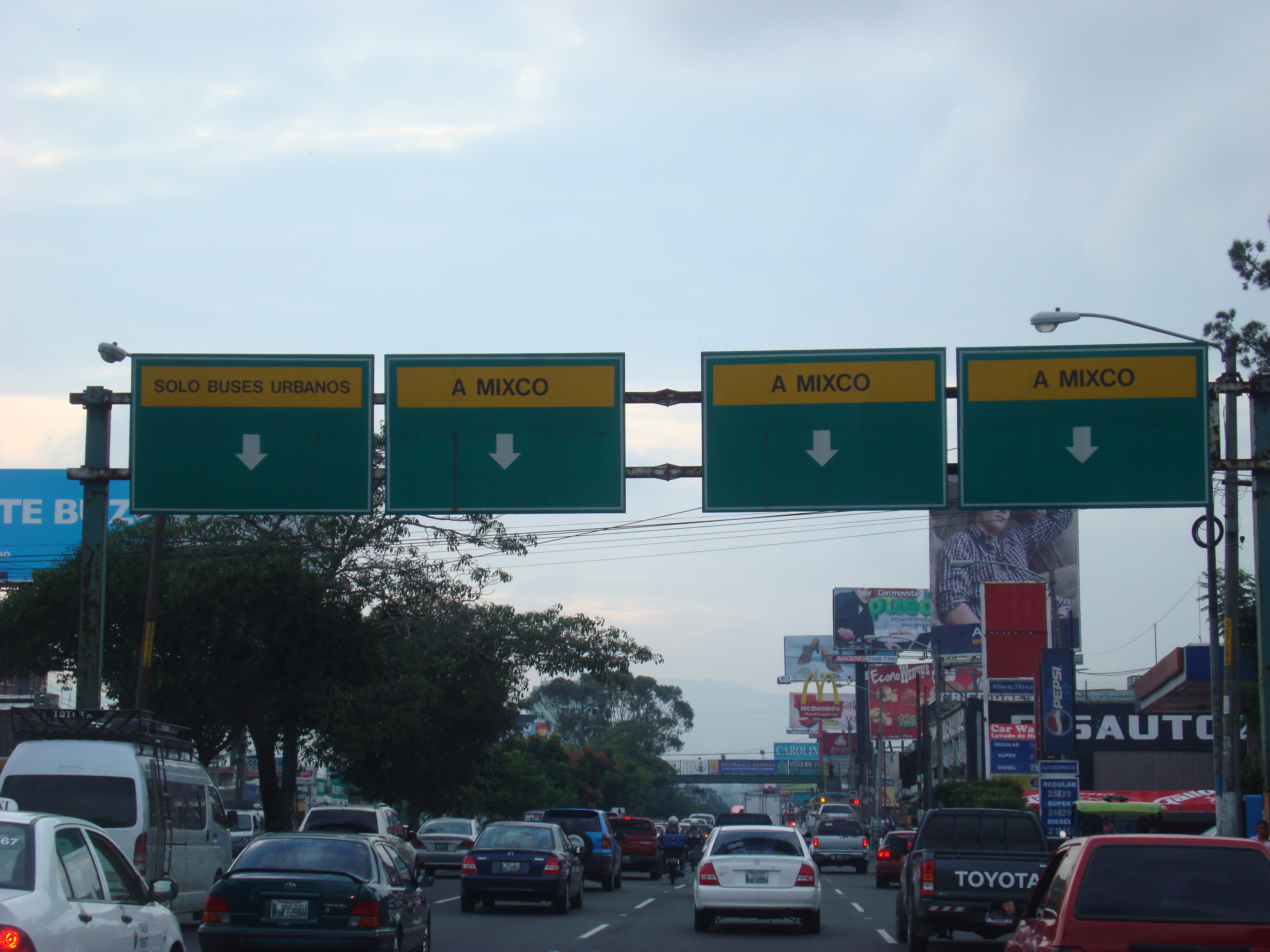 Calzada Roosevelt - Guatemala